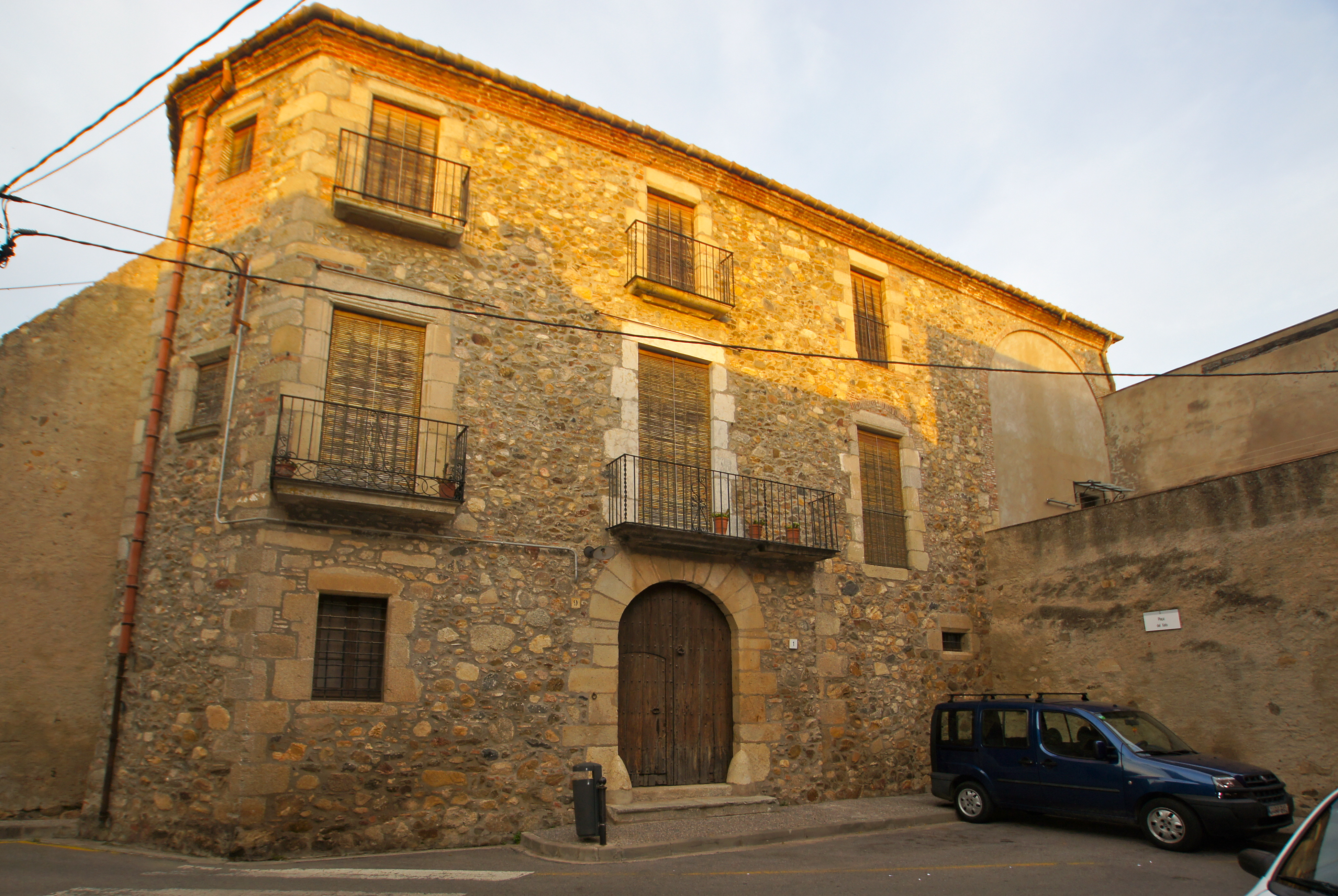 Calonge, Catalonia: Can Xifró: Southern front on the Plaça del Xato Square